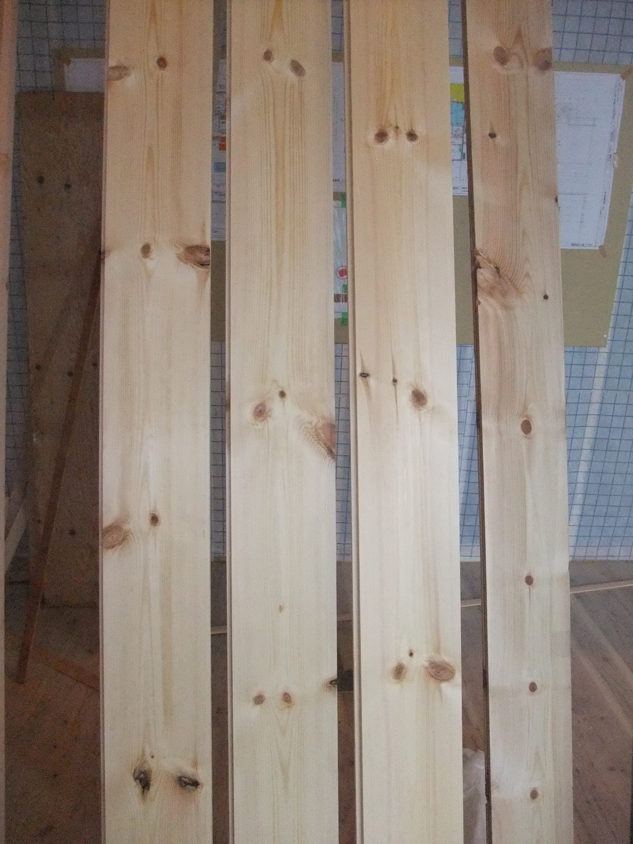 4 m long wood planks made of solid, German pine.